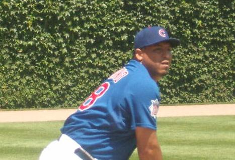 taken august 3rd, before his start vs. pitt use this as you will Wjmummert (KA-BOOOOM!!!!) 04:19, 15 August 2008 (UTC) 04:19, 15 August 2008 . . Wjmummert . . 467×319 (47 KB)